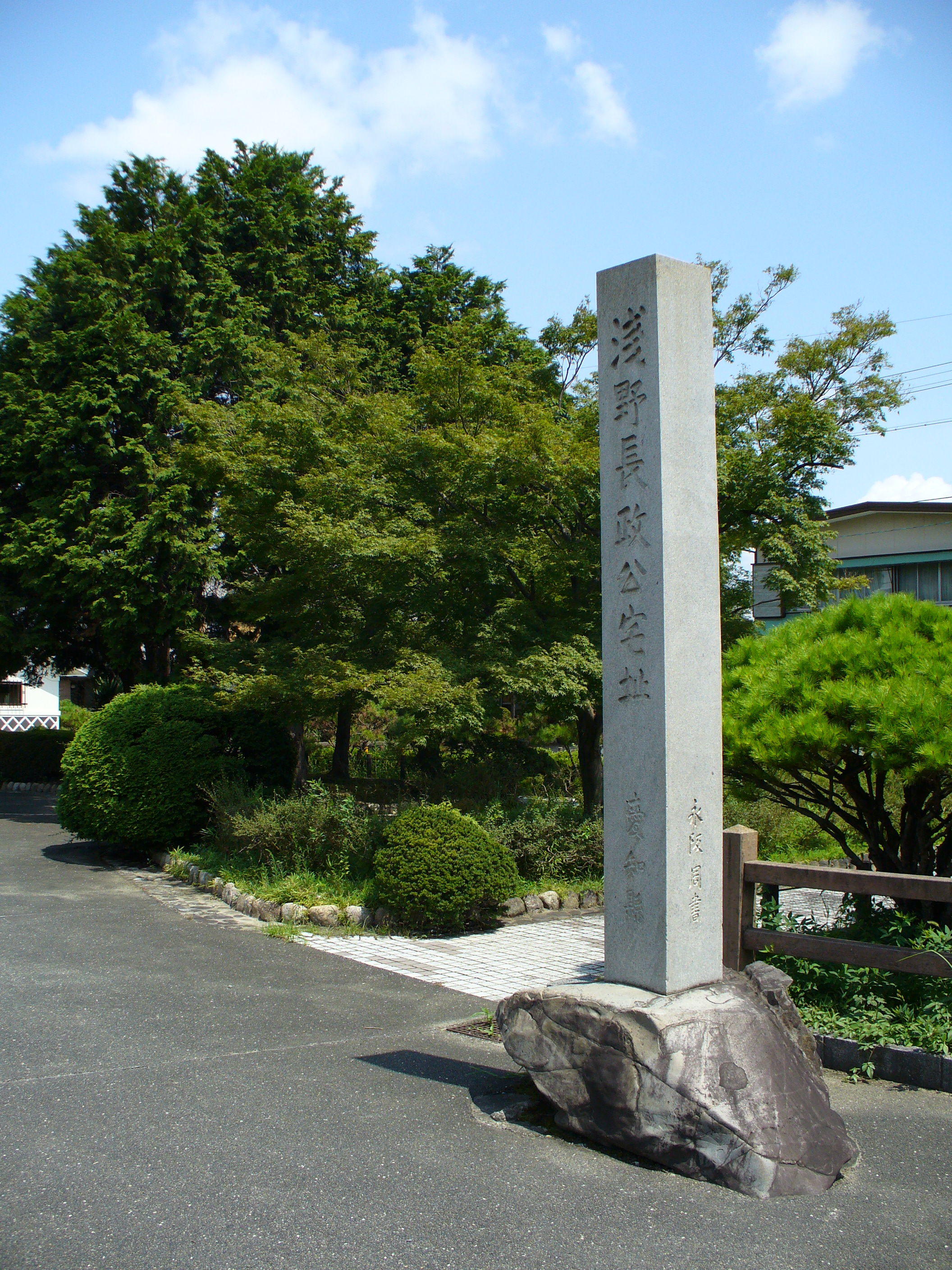 Ruins of Nagamasa Asano's residence. Asano Park is there now. Ichinomiya-city, Aichi, Japan.